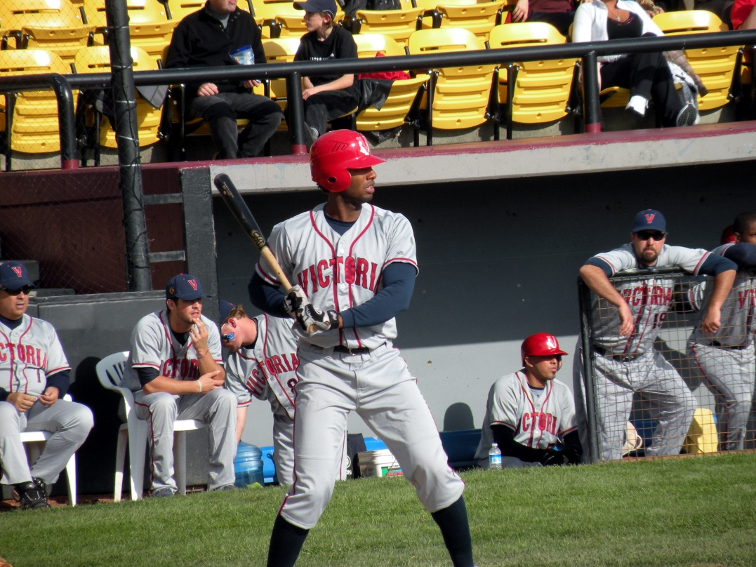 Jamar Hill bats for the Victoria Seals during a Golden Baseball League game against the Calgary Vipers, in Calgary.